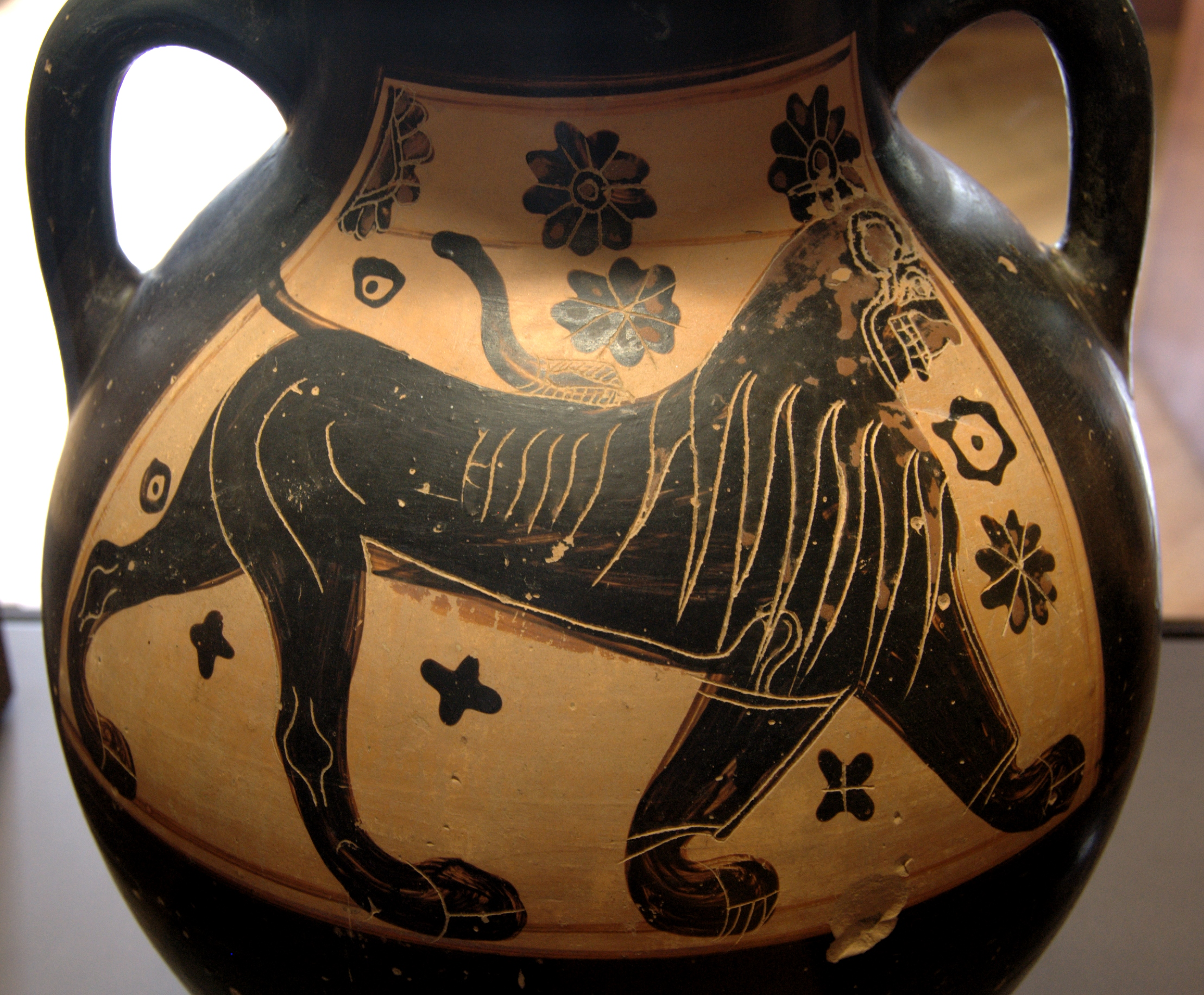 Lion. Attic black-figured amphora, 600–575 BC.